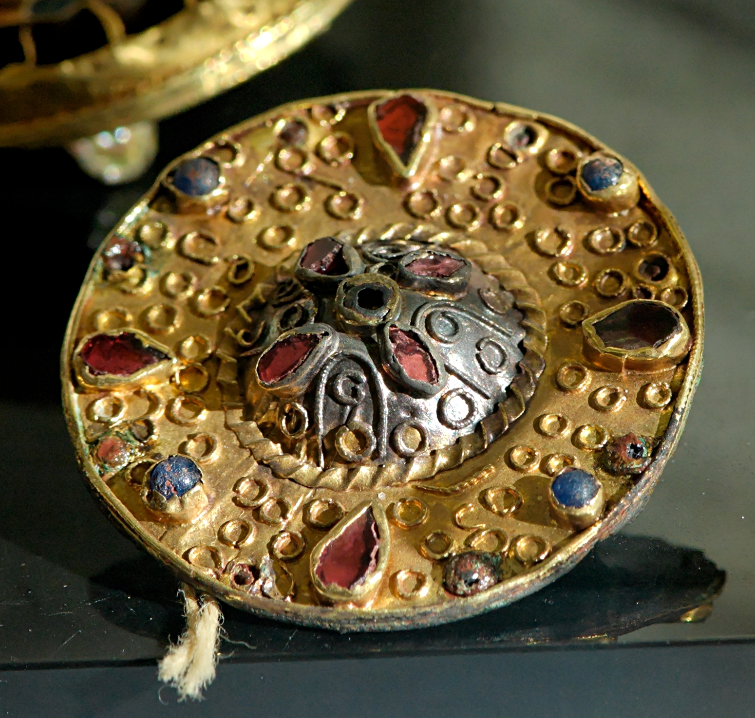 Merovingian fibula. Gold, garnets and glass paste and precious stones. Found in the Merovingian cemetary of Blondefontaine, France.